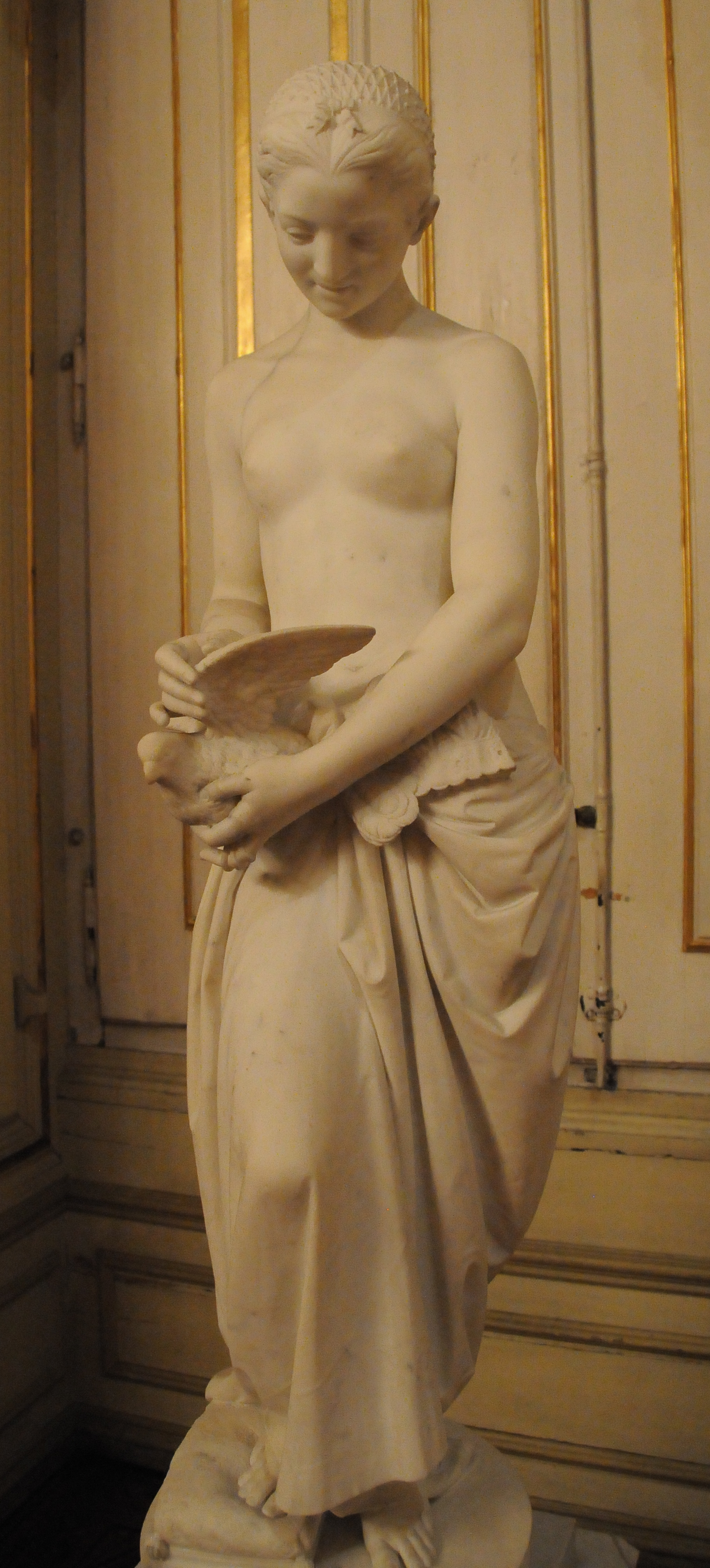 Interior of Palácio Nacional da Ajuda, Lisbon, Portugal